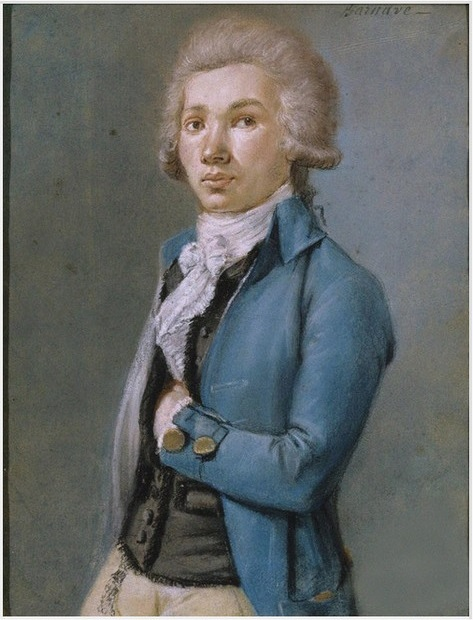 Antoine Barnave